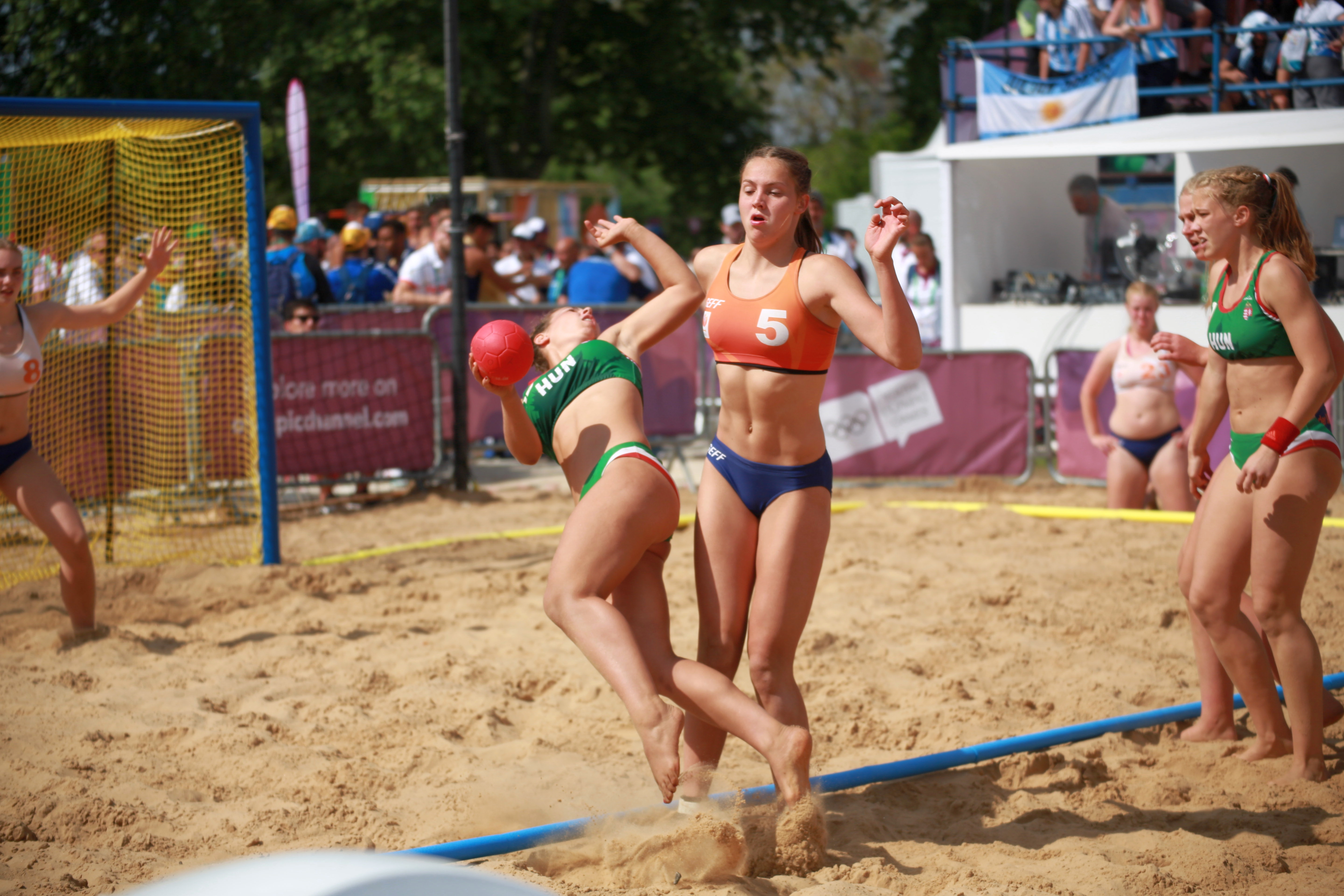 Beach handball at the 2018 Summer Youth Olympics in Buenos Aires at 13 October 2018 – Girls Bronze Medal Match – Hungary-Netherlands 2:0